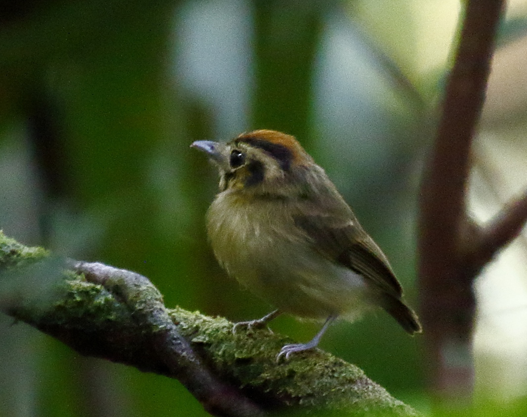 Golden-crowned spadebill at Presidente Figueiredo, Amazonas, Brazil